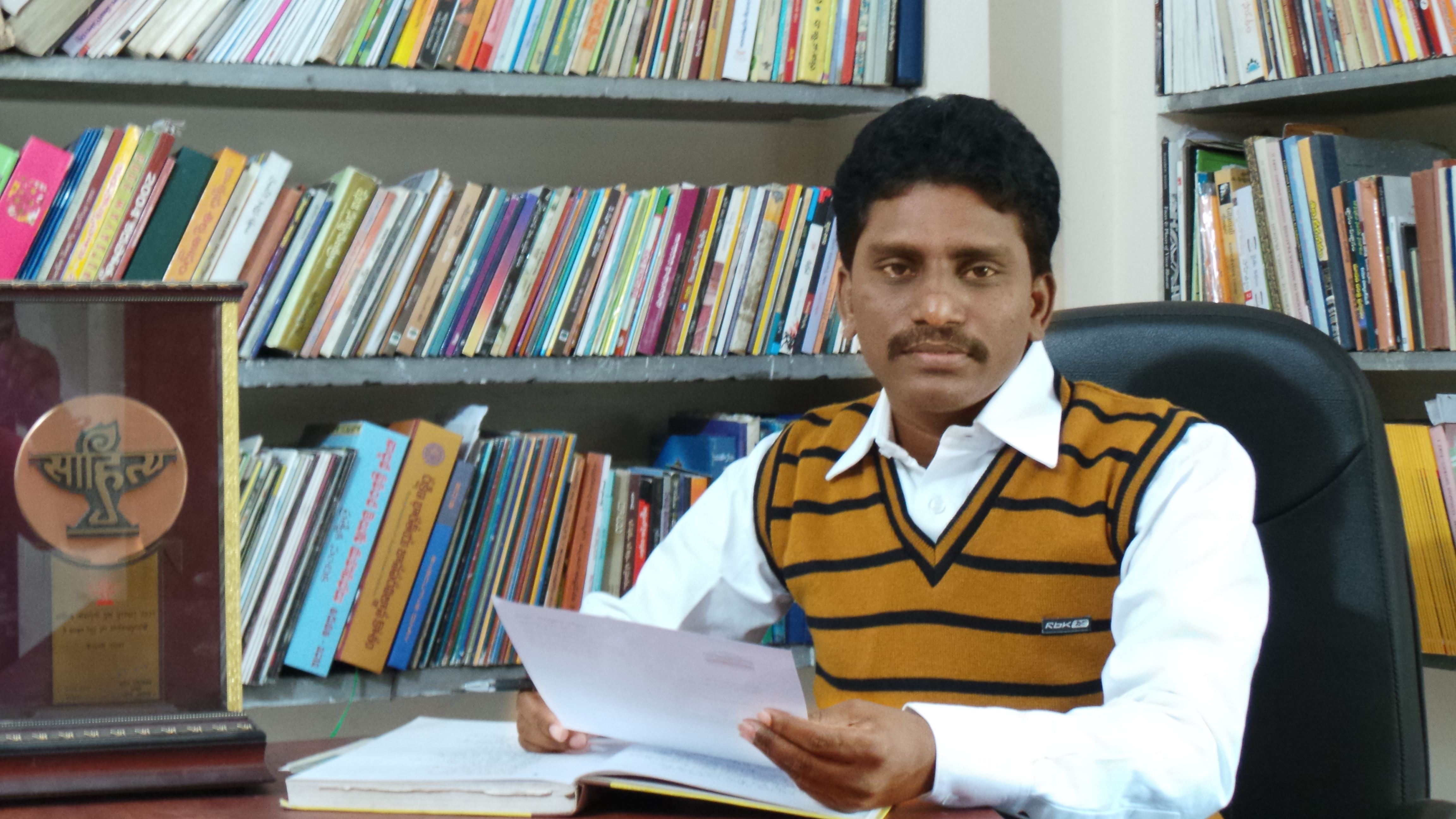 Dr Vempalli Gangadhar, with his Sahitya Akademi Award.